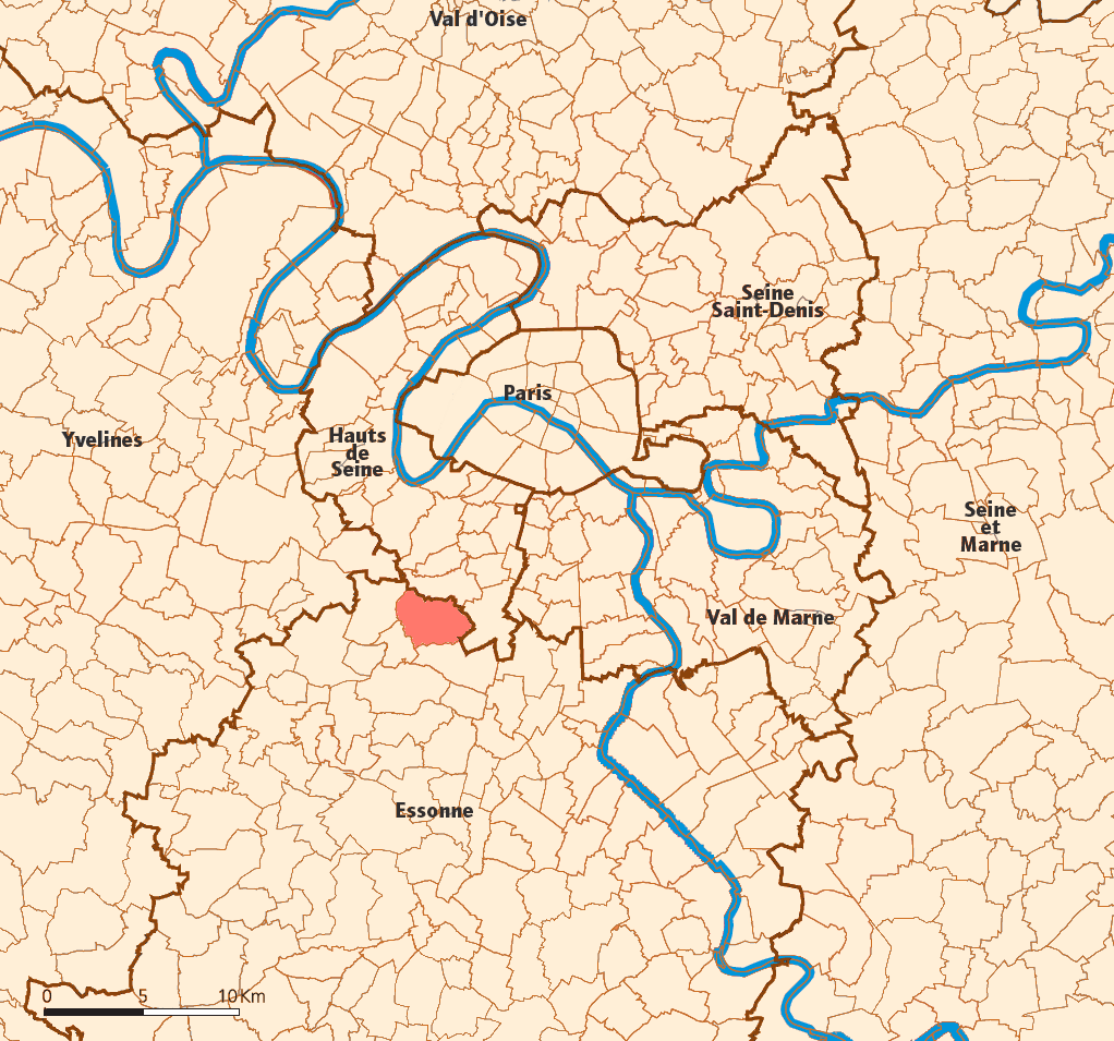 Created map myself.